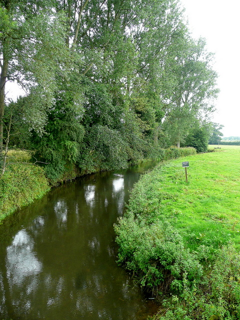 River Enborne - upstream